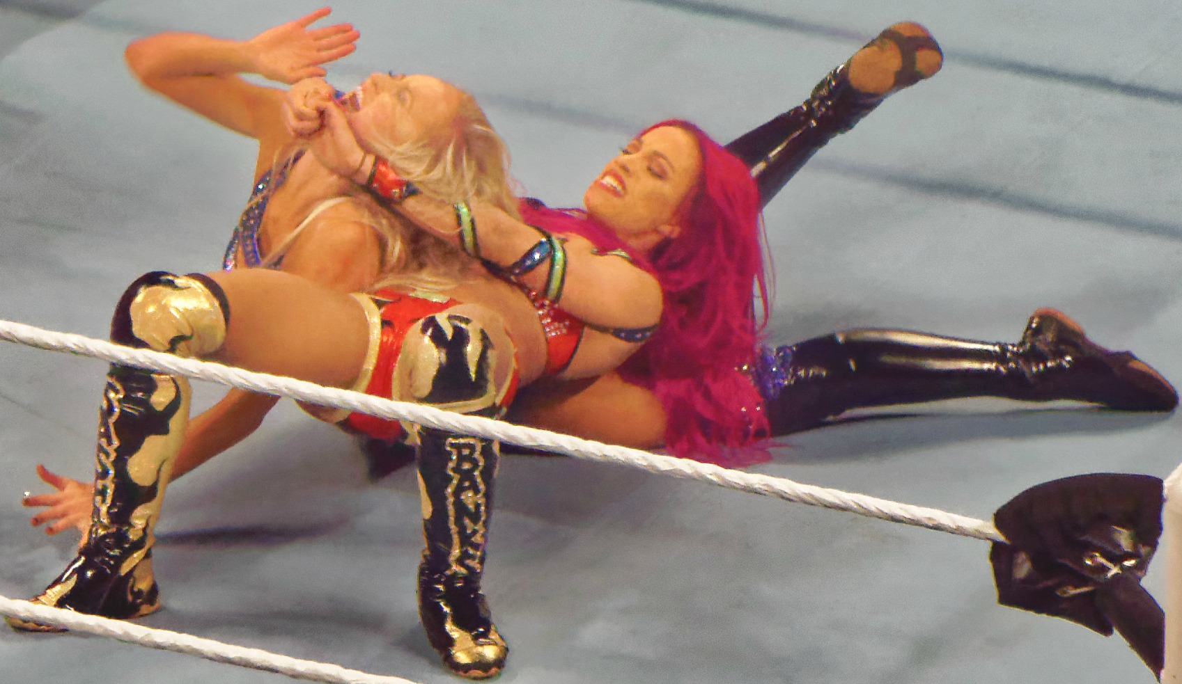 Sasha Banks performing her finishing maneuver the "Bank Statement" on Summer Rae the night after WrestleMania 32 in April 4, 2016.